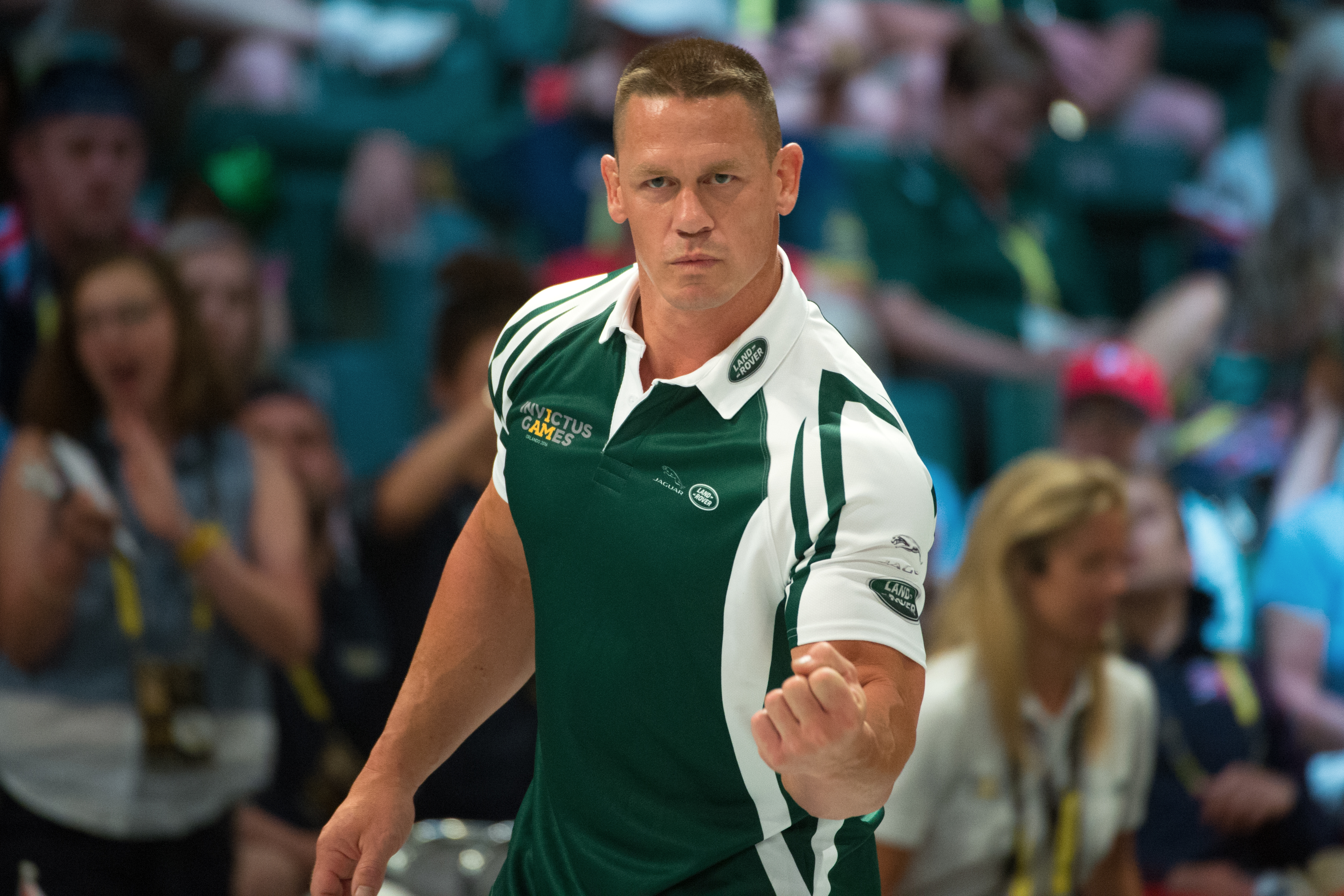 WWE superstar John Cena coaches an exhibition wheelchair rugby match during the 2016 Invictus Games in Orlando, Fla. May 11, 2016. (DoD photo Edward Joseph Hersom II)